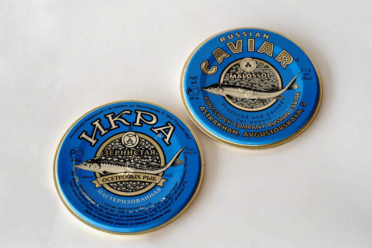 Covers of two Russian caviar boxes.